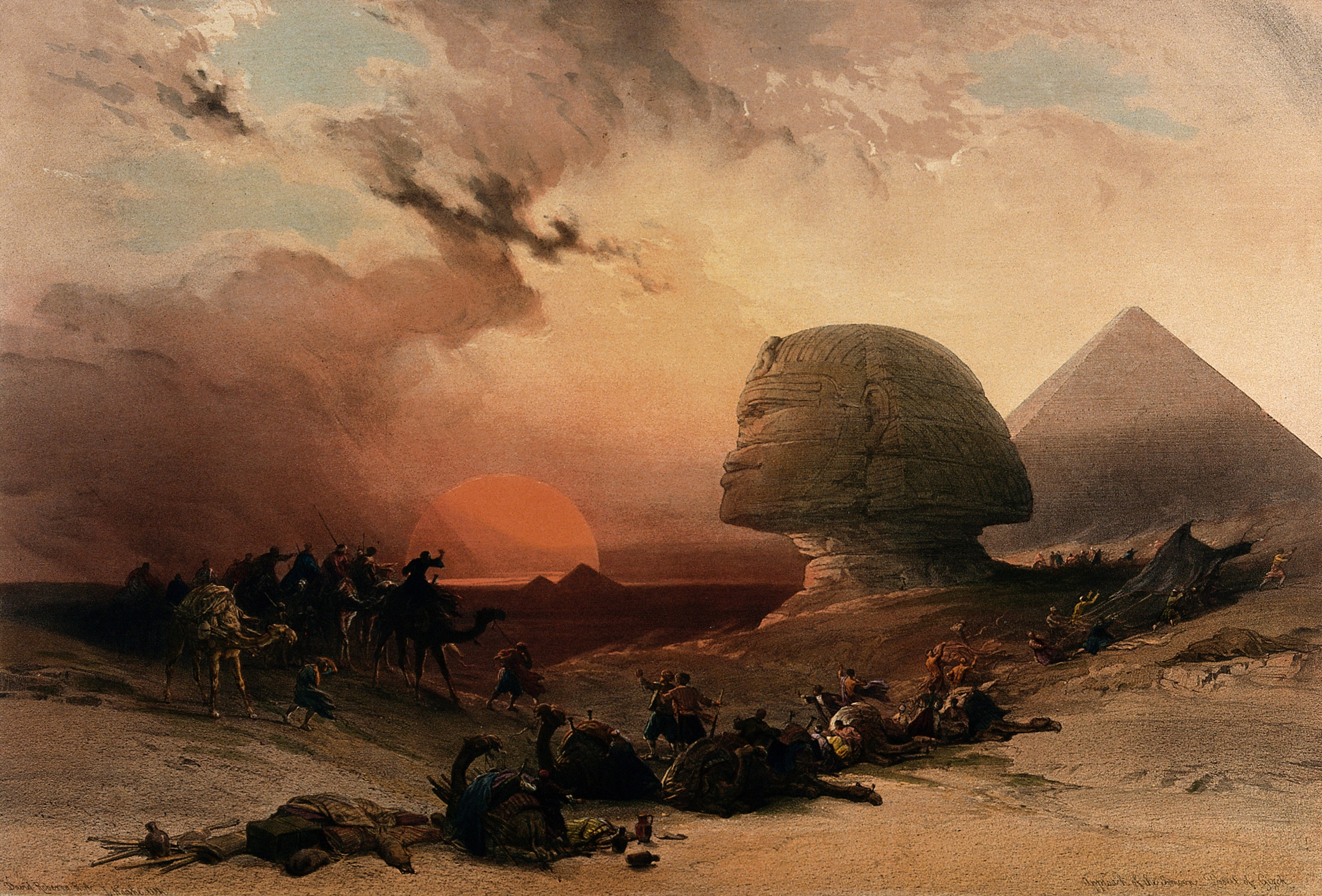 Approach of the Simoom, Desert of Gizeh, from Egypt and Nubia. Lithograph by Louis Haghe after David Roberts, 1846–49. – Description on p. 201, front cover image for The Search for Ancient Egypt by Jean Vercoutter, “Abrams Discoveries” series, Harry N. Abrams, 1992. Iconographic Collections Keywords: David Roberts; Louis Haghe